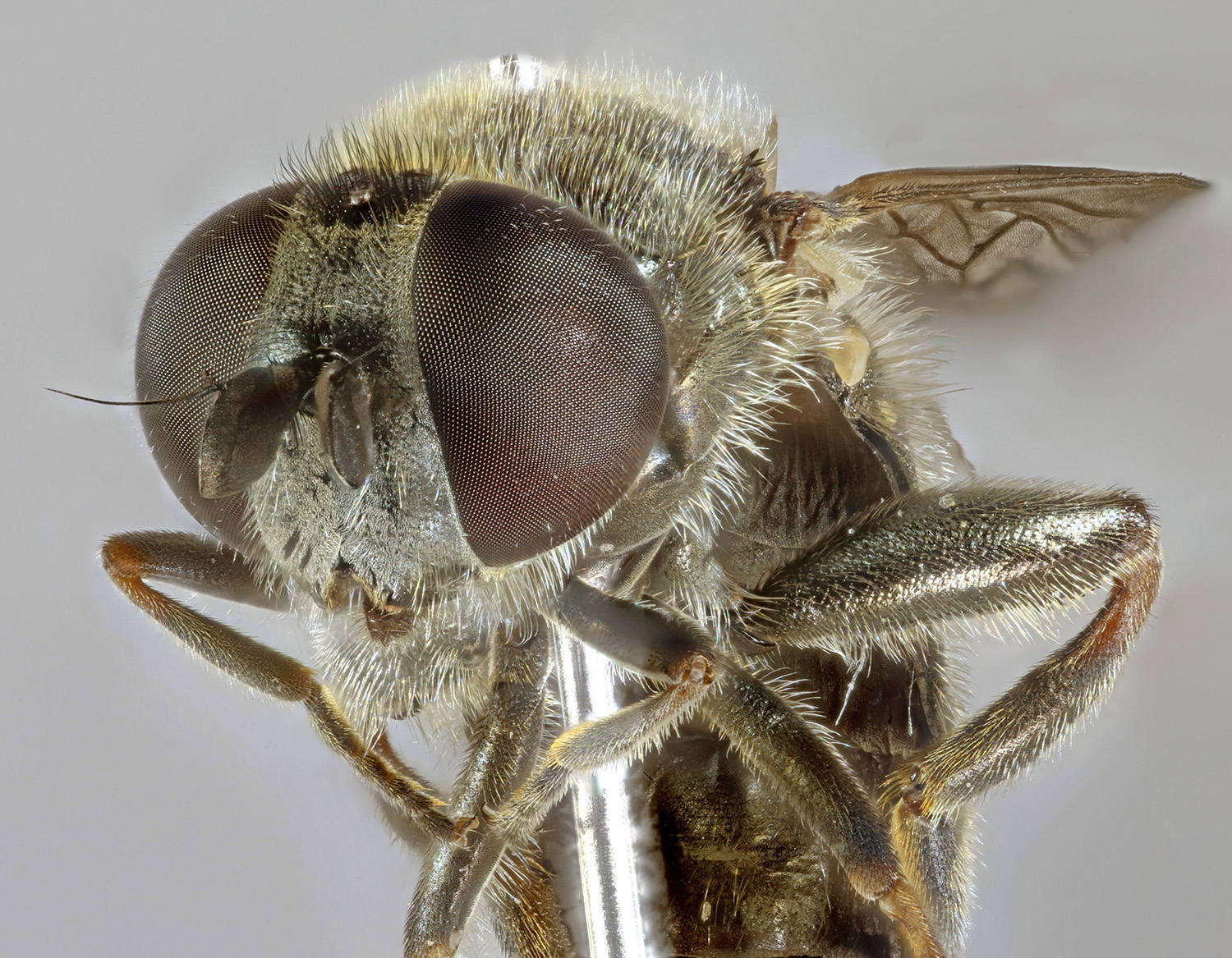 Eumerus strigatus, Deeside, North Wales, June 2015 3